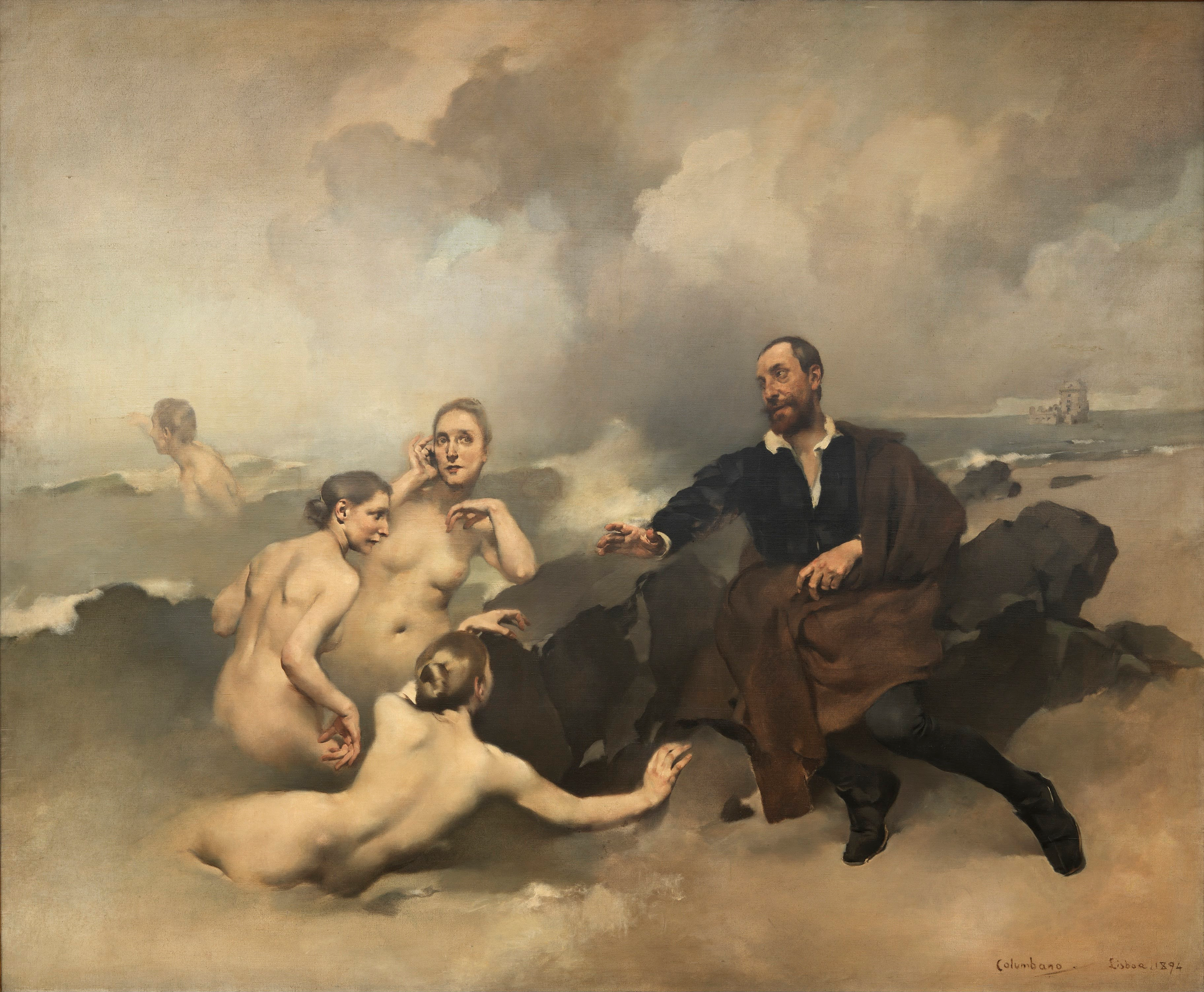 Camões and the Tágides (1894), by Columbano Bordalo Pinheiro. Museu Nacional Grão Vasco, Viseu, Portugal